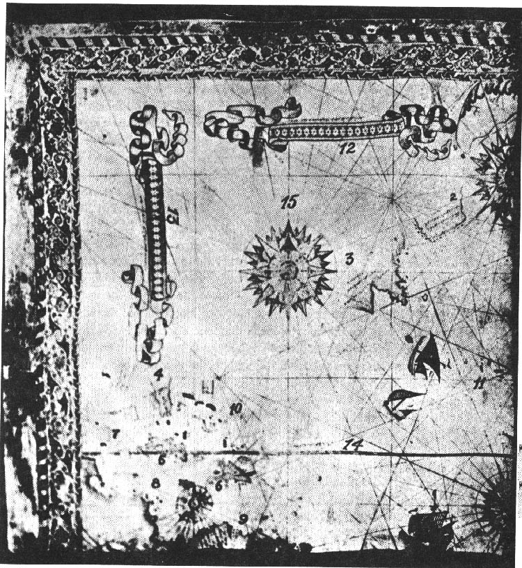 Map of Piri Reis